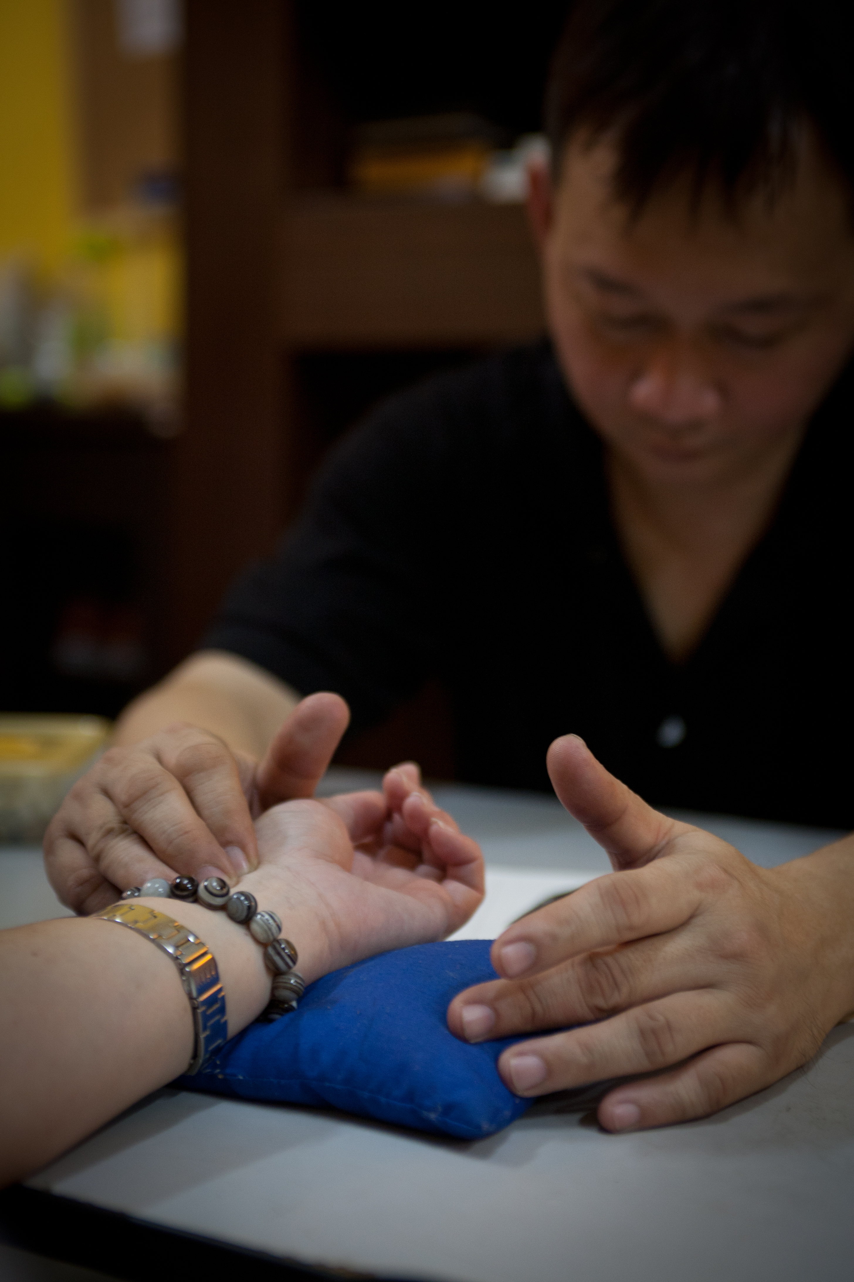 Free TCM clinic at Thekchen Choling